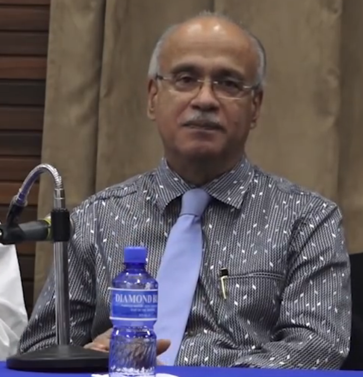 Errol Alibux, former Prime Minister of Suriname (1983-1984)